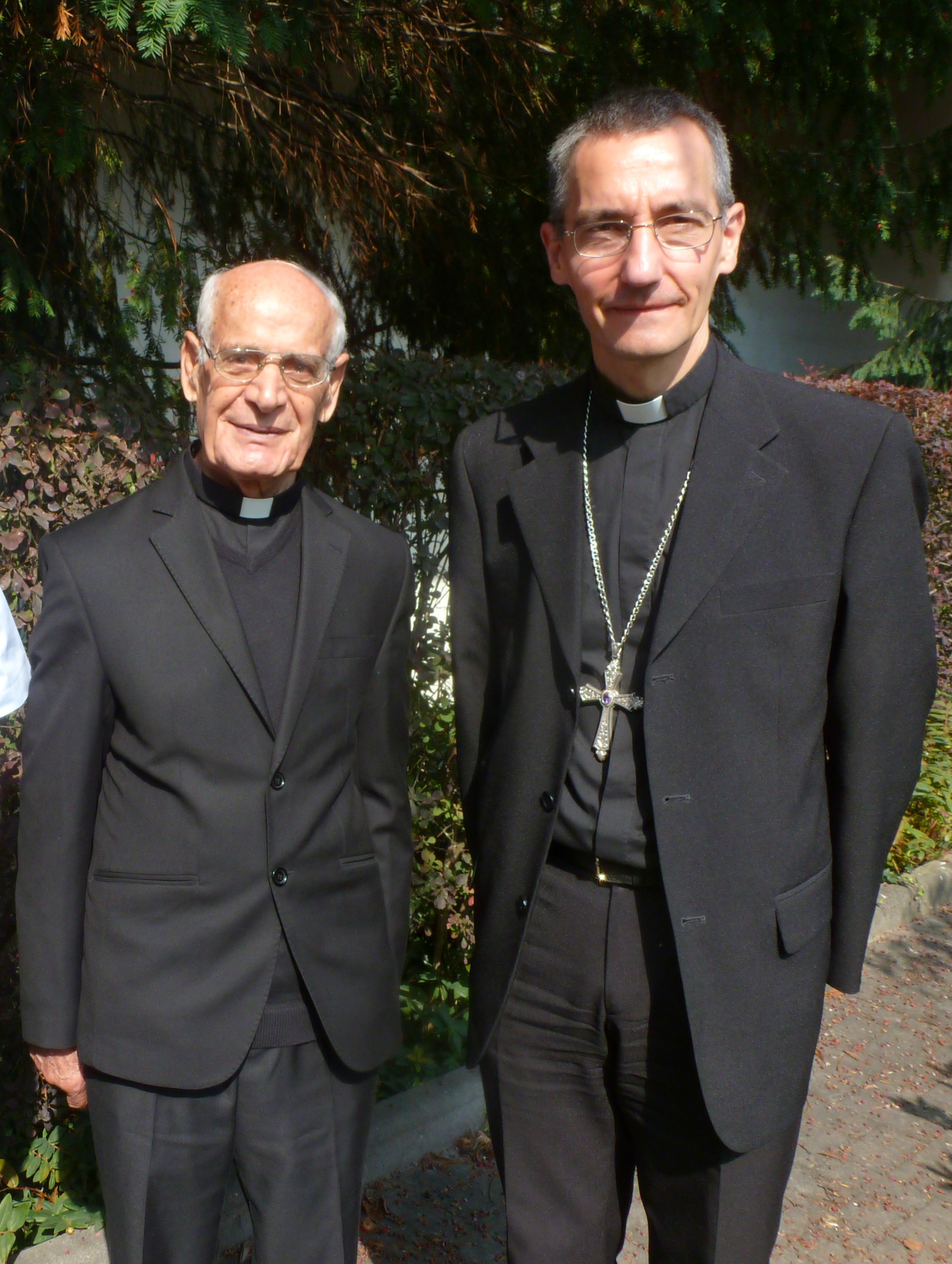 Mgr Vincent Dollmann, auxiliary bishop of Strasbourg, with the archpriest of the cathedral of Mosul (Iraq).